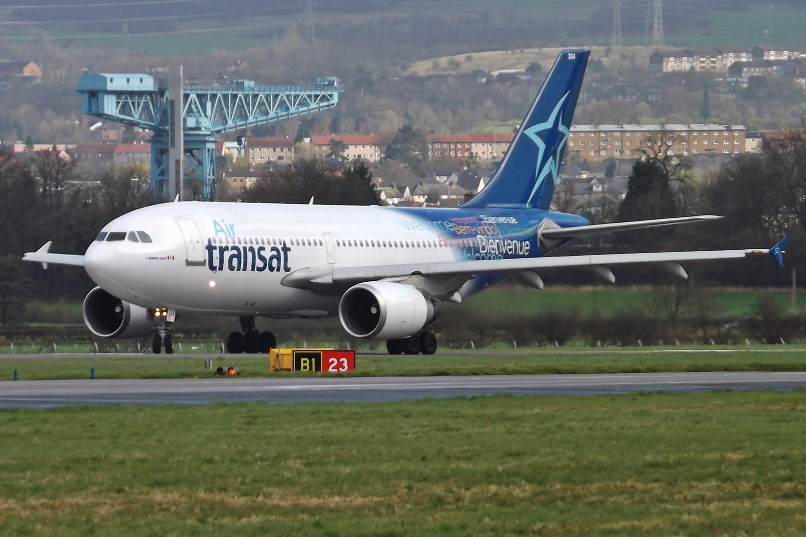 C-GSAT A310 Air Transat